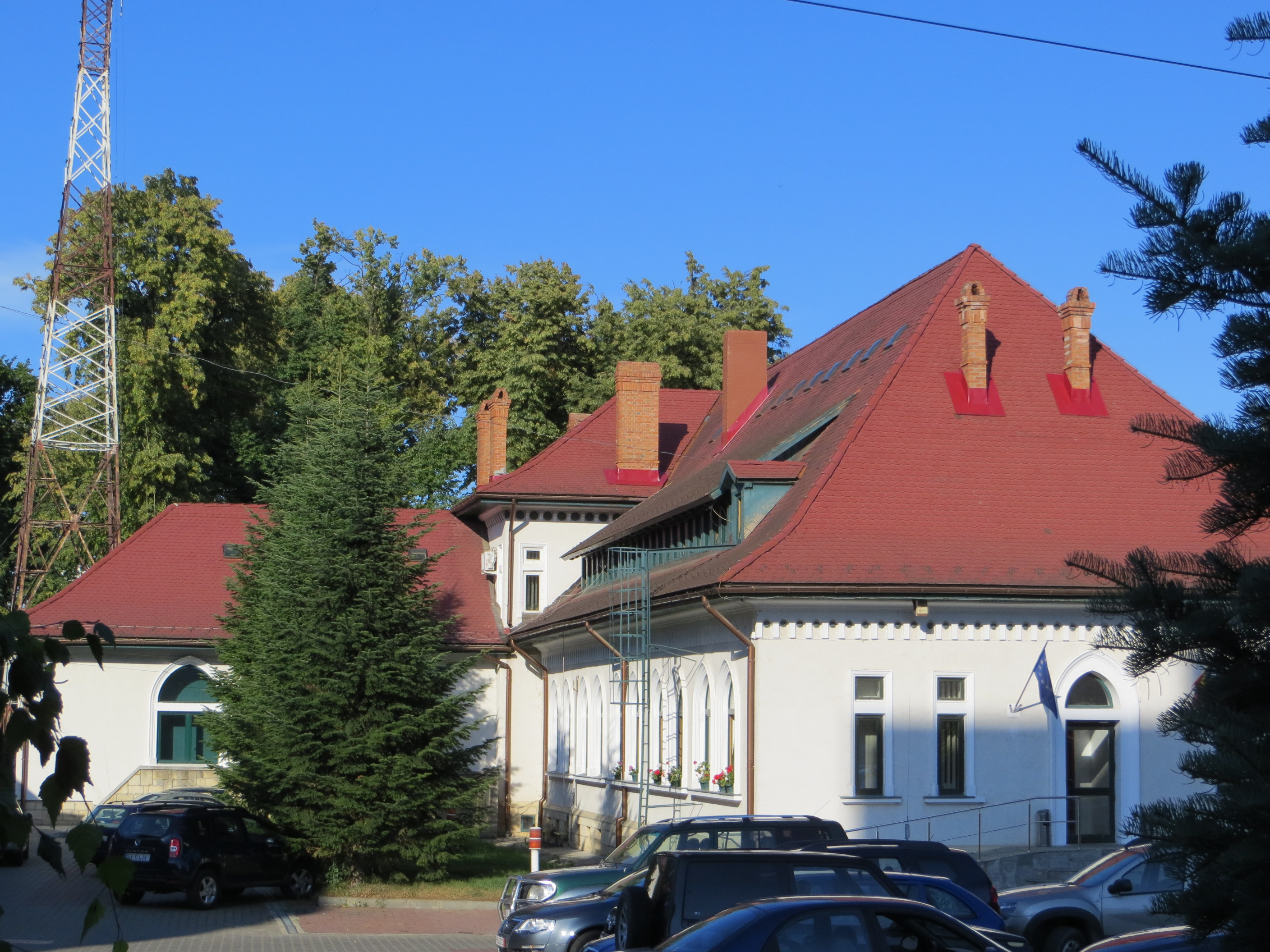 The Forestry Department in Suceava.